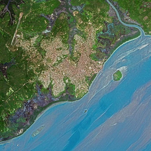 Bissau by SPOT Satellite